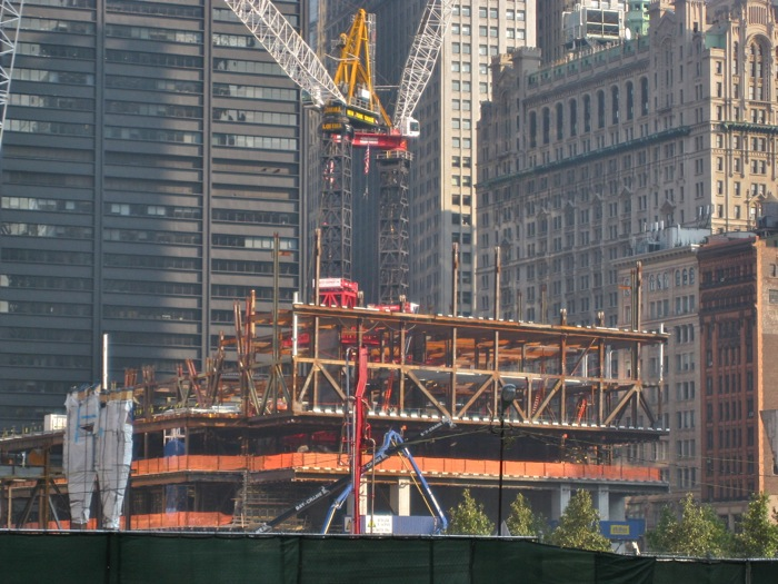 picture taken in September owned by lofter1 open to the public